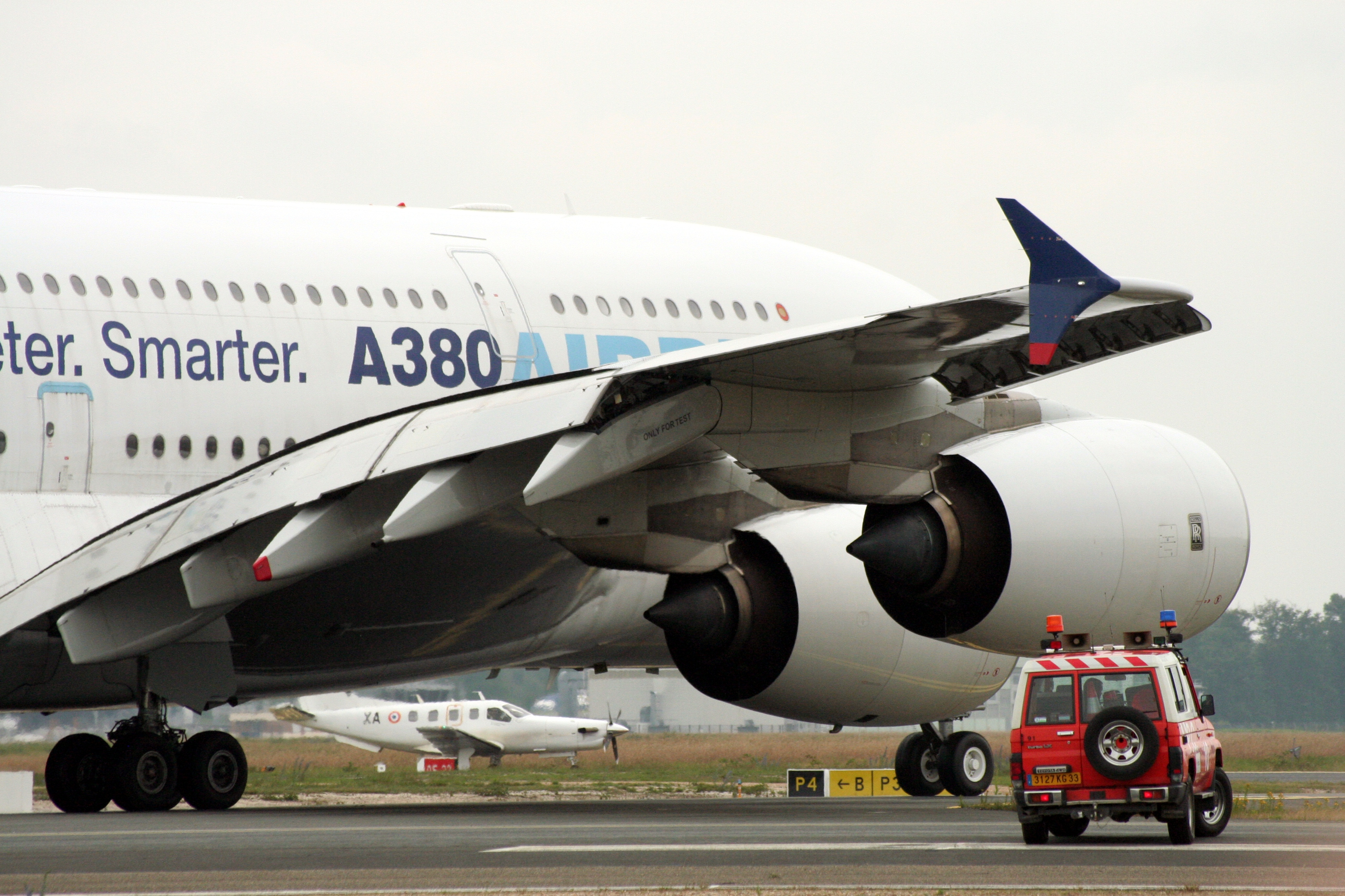 A380 shortly before takeoff in Bordeaux-Mérignac airport, France.